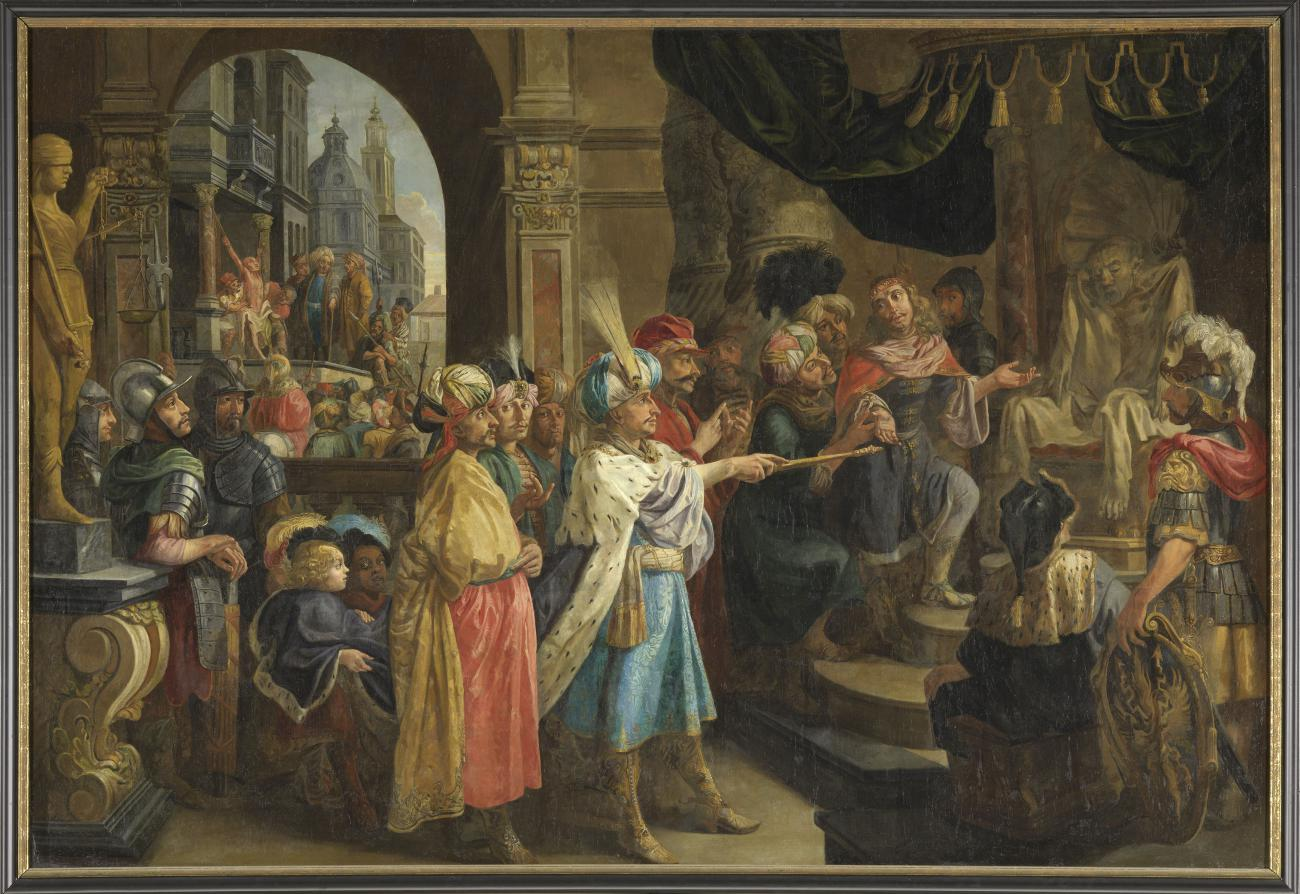 The Judgement of Cambyses by Vigor Boucquet